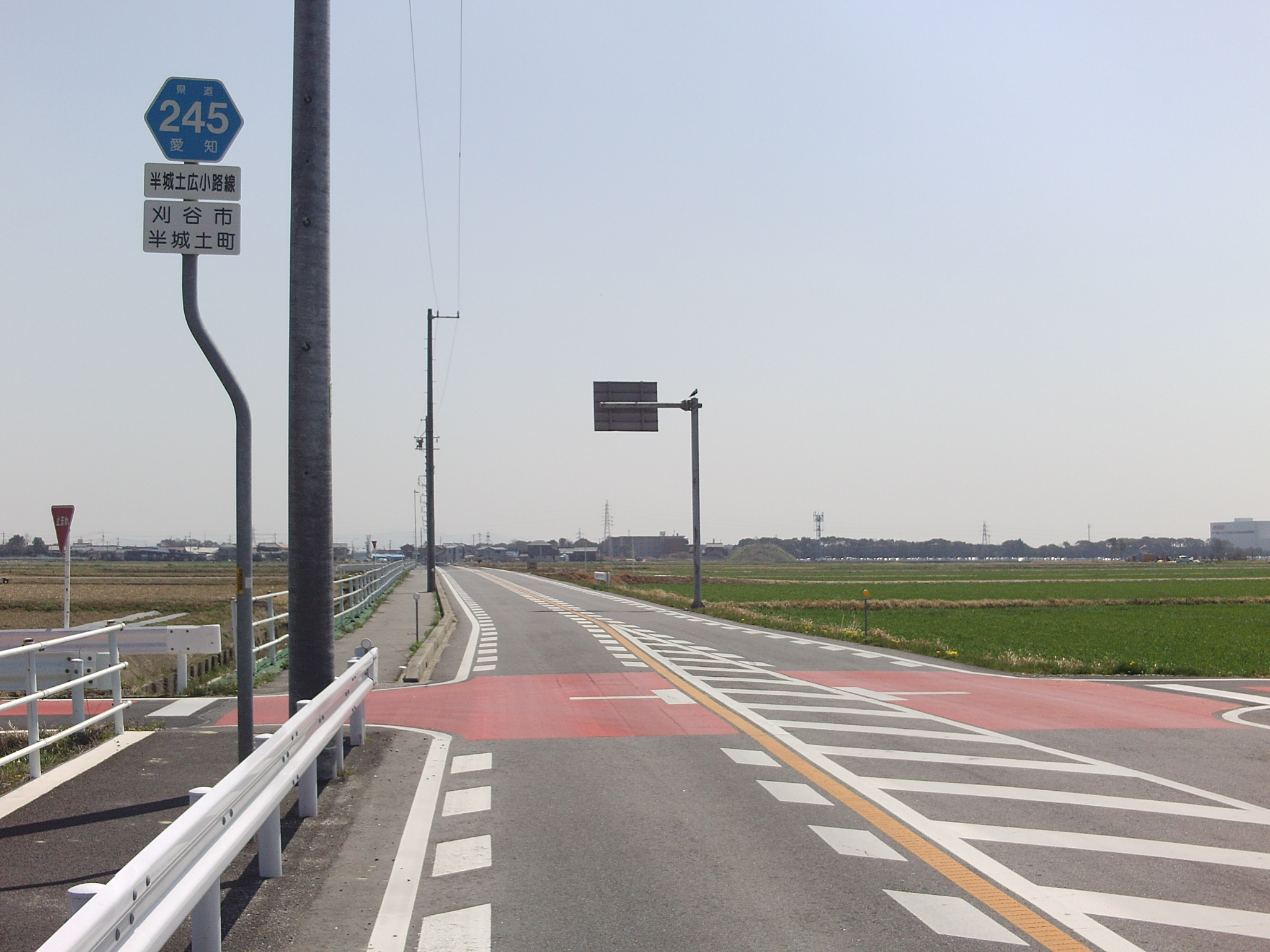 Aichi prefectural road No.245 in Hajodo, Kariya, Aichi.